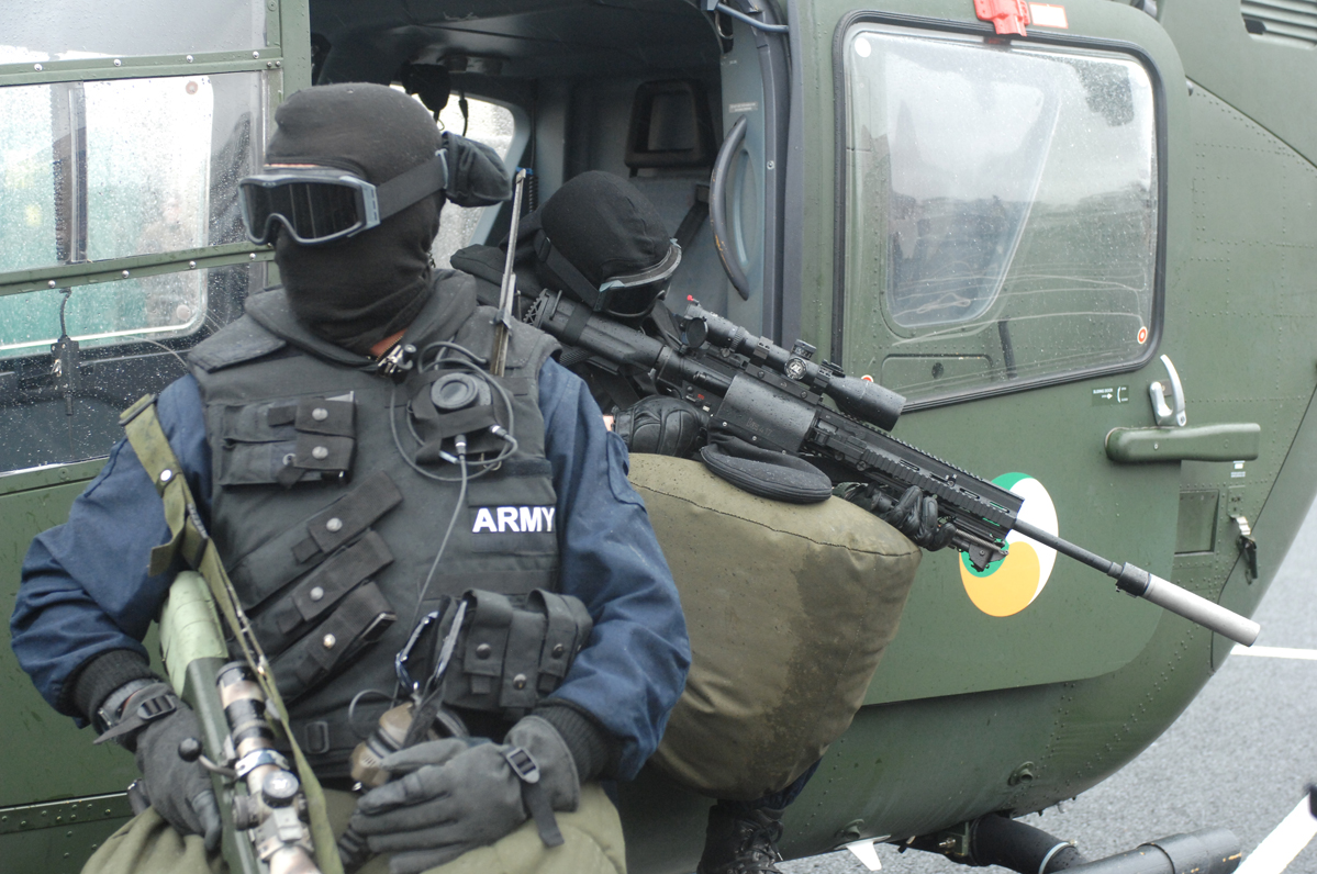 Irish Army Ranger Wing (ARW) sniper display with Air Corps Eurocopter EC135 helicopter for ARW 30th aniversary.